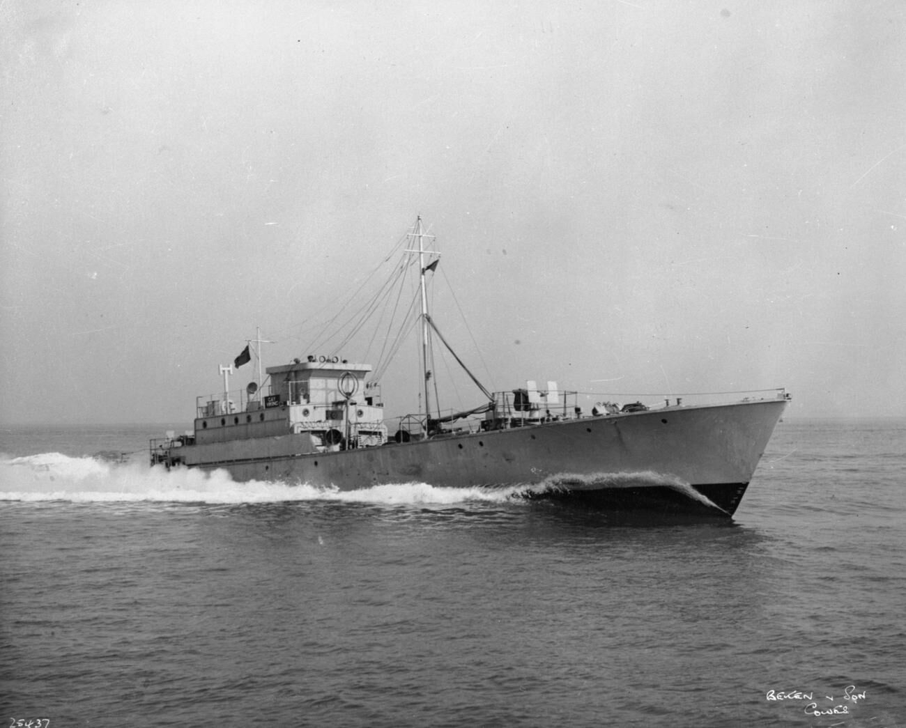 HMS GAY VIKING underway as a Motor Gun Boat.